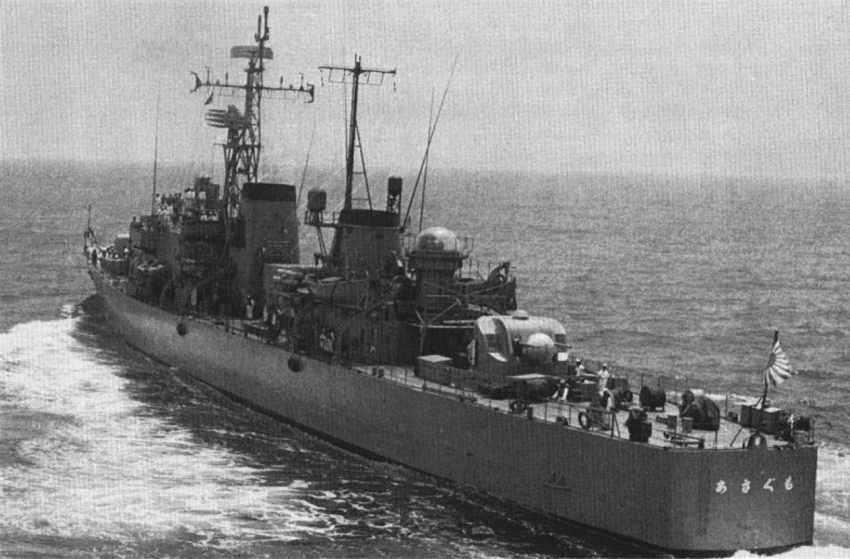 Aft view of the Japanese Maritime Self-Defence Force destroyer Asagumo (DD-115), circa 1974.